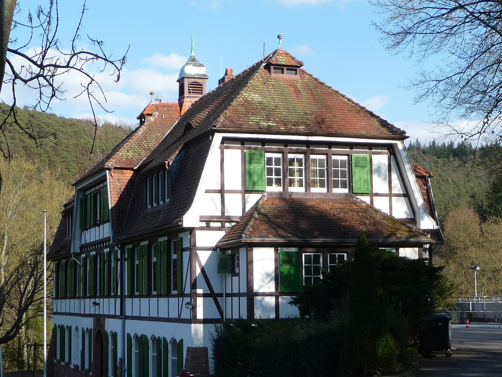 Ramsen (Pfalz)